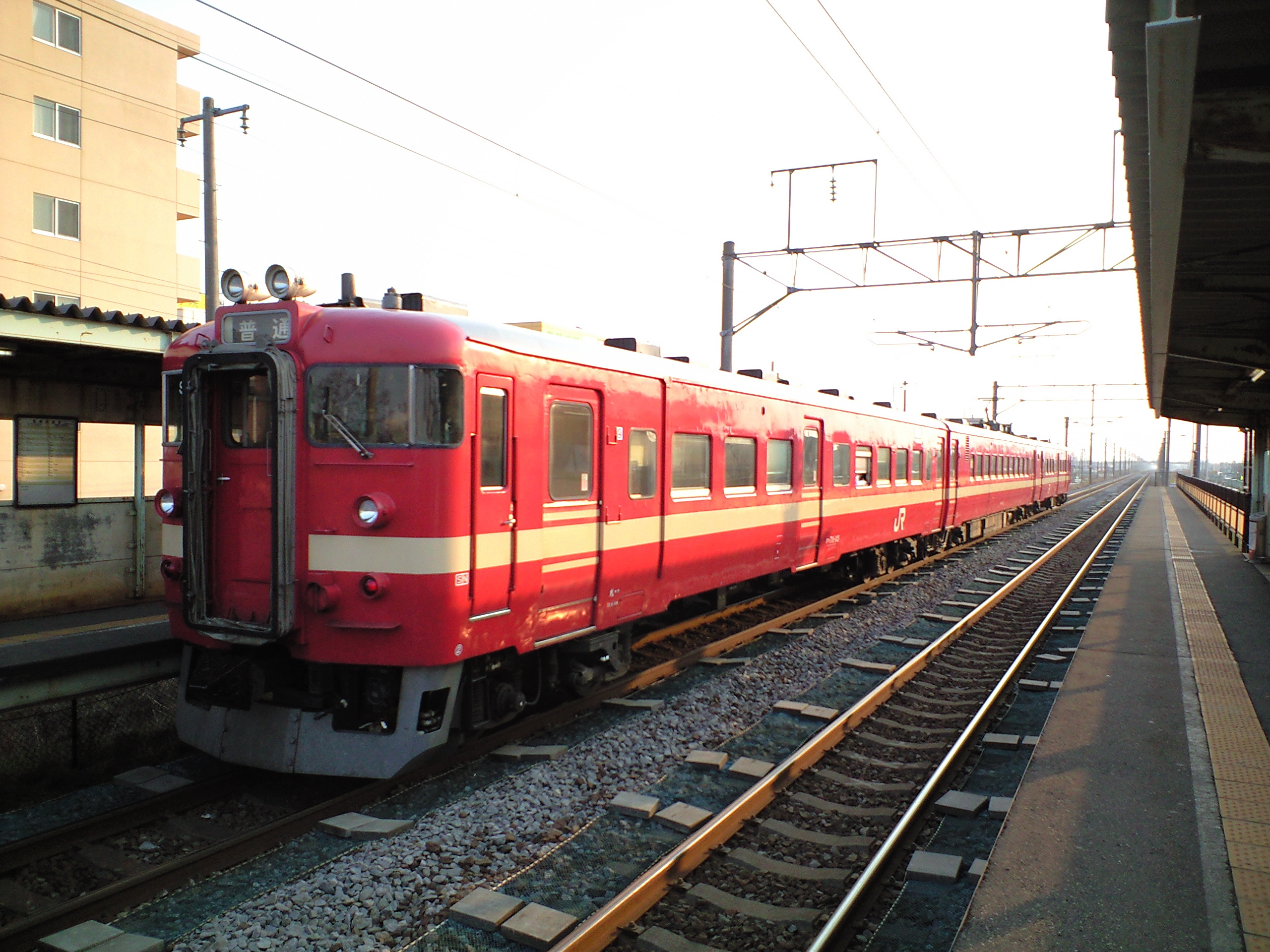 JNR 711 Series EMU for a local train on Muroran Mail Line for Itoi, at Aoba Station